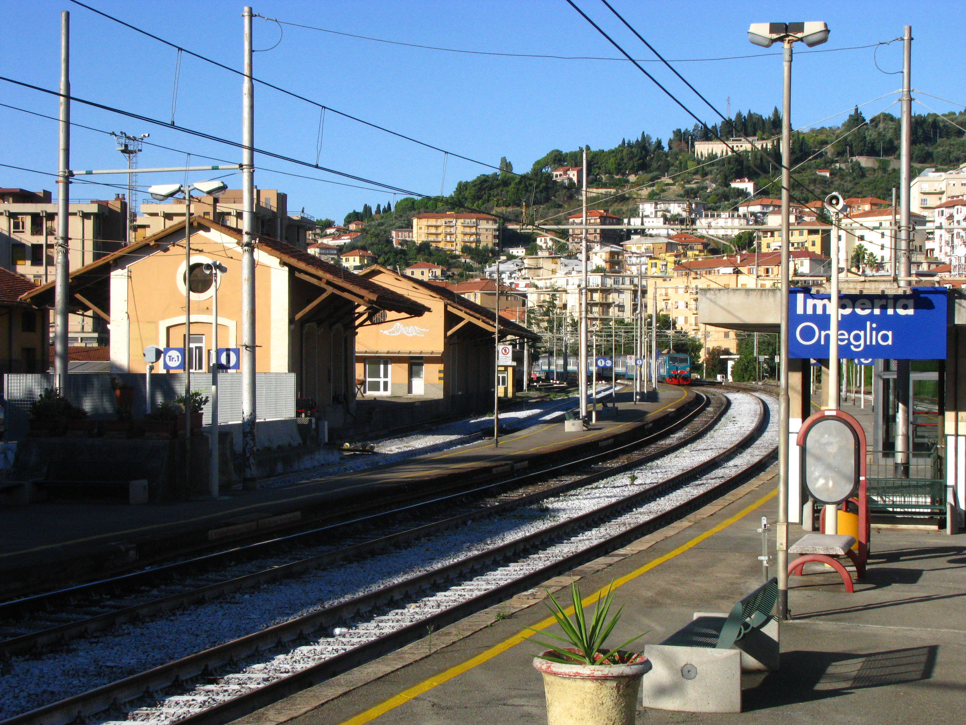 18100 Imperia, Province of Imperia, Italy